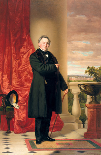 Full length portrait of Matthew Vassar.